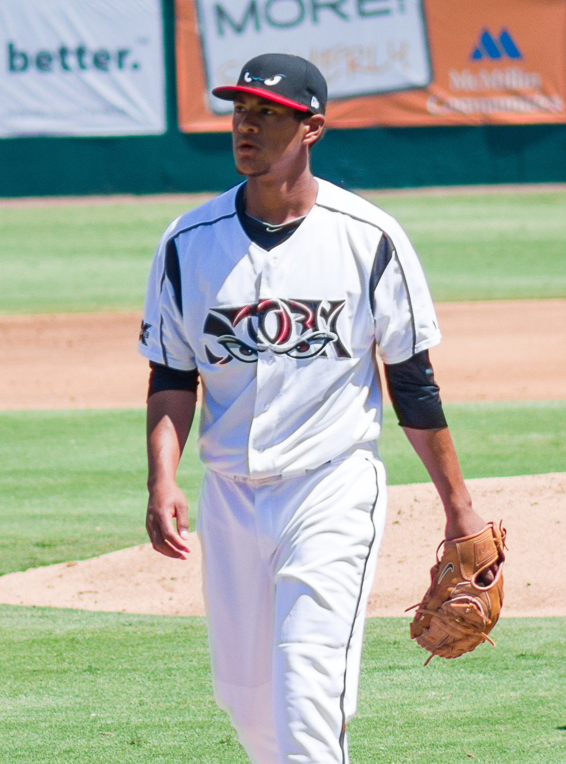 San Diego Padres minor league pitcher Joe Ross playing for the Lake Elsinore Storm 2014